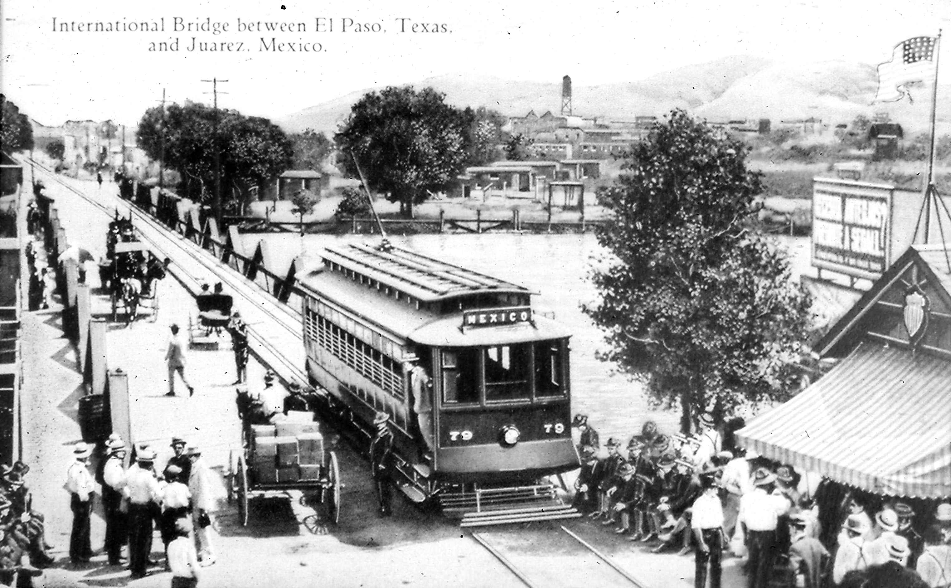 International Bridge between El Paso and Cuidad Juarez in 1902